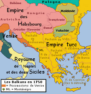 Historic map of Balkan peninsula, 1750